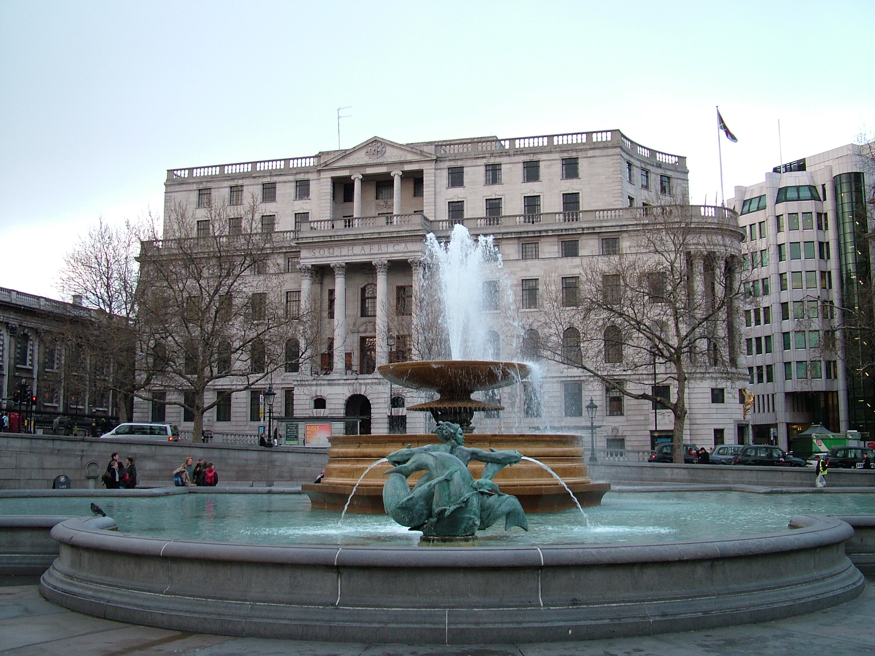 South Africa House, Trafalgar Square, London. East Fountain by William McMillan (1948)